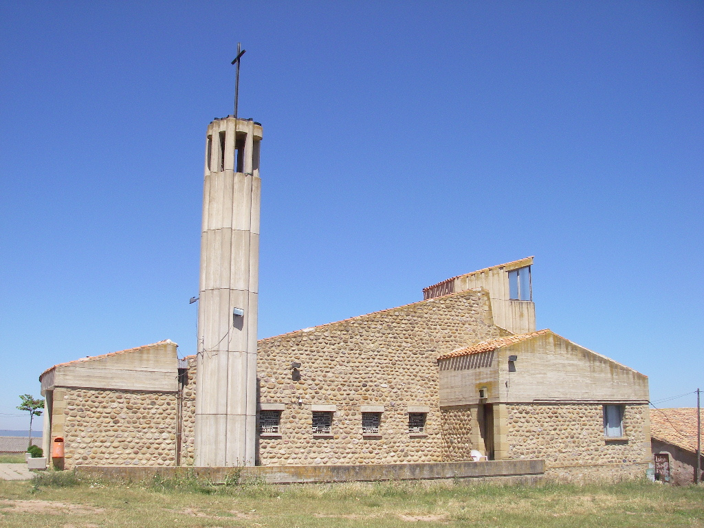 View of the church in La Unión de los Tres Ejércitos (La Rioja, Spain)